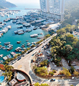 land between Larvotto and Shan Wan Tower